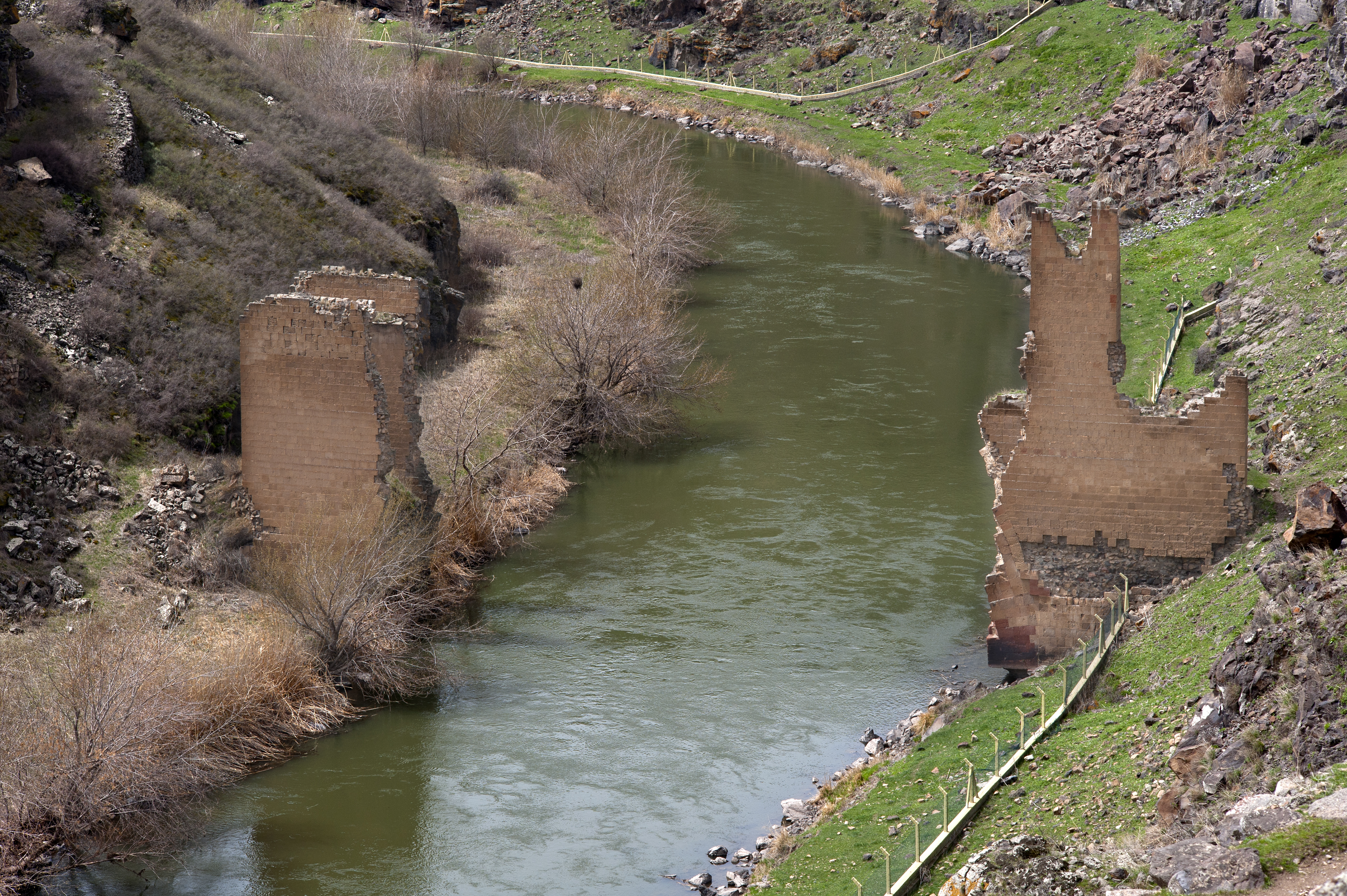 Ruins of the bridge over Akhurian River, Ani, Turkey.